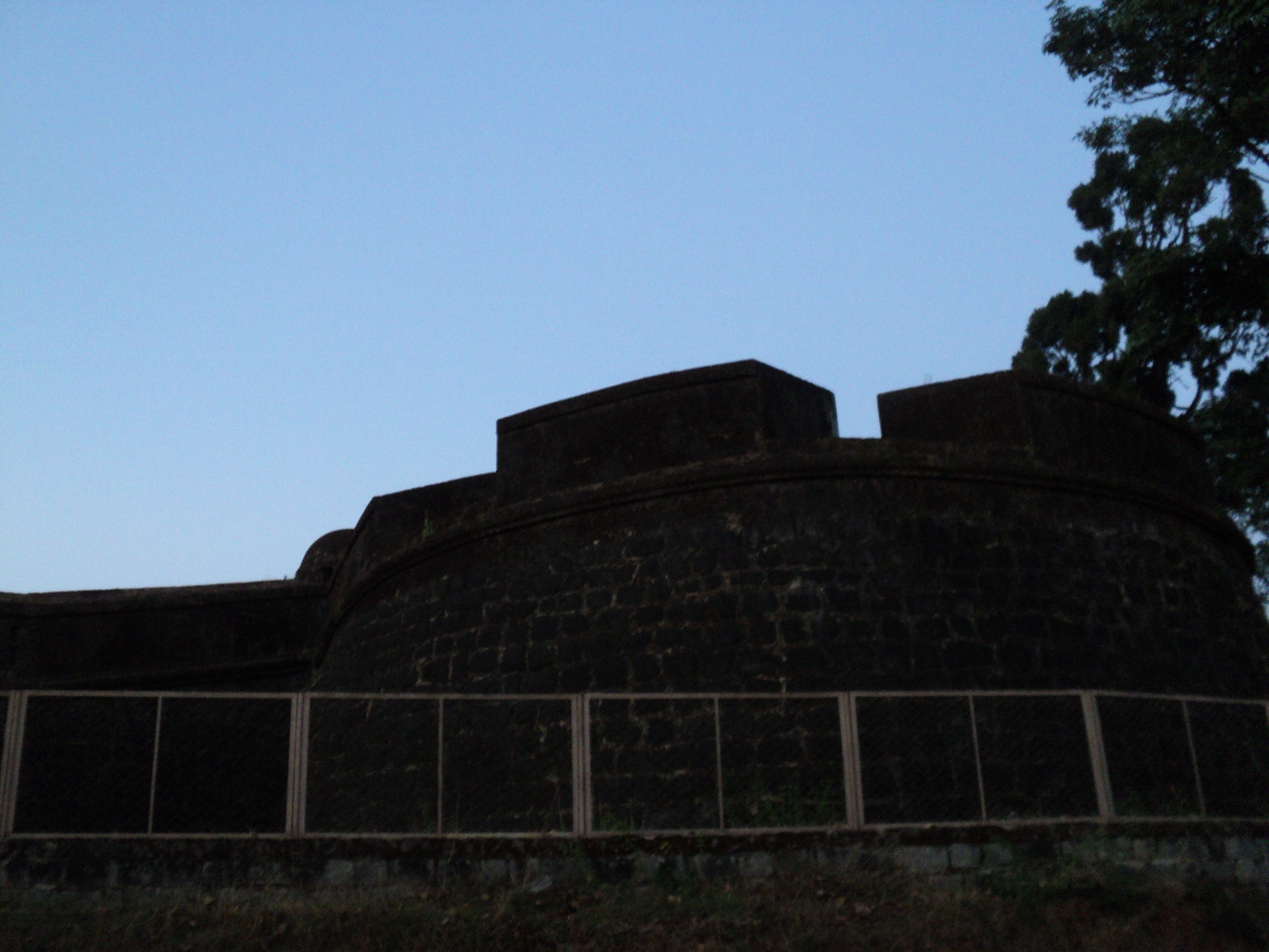 Madikeri Fort